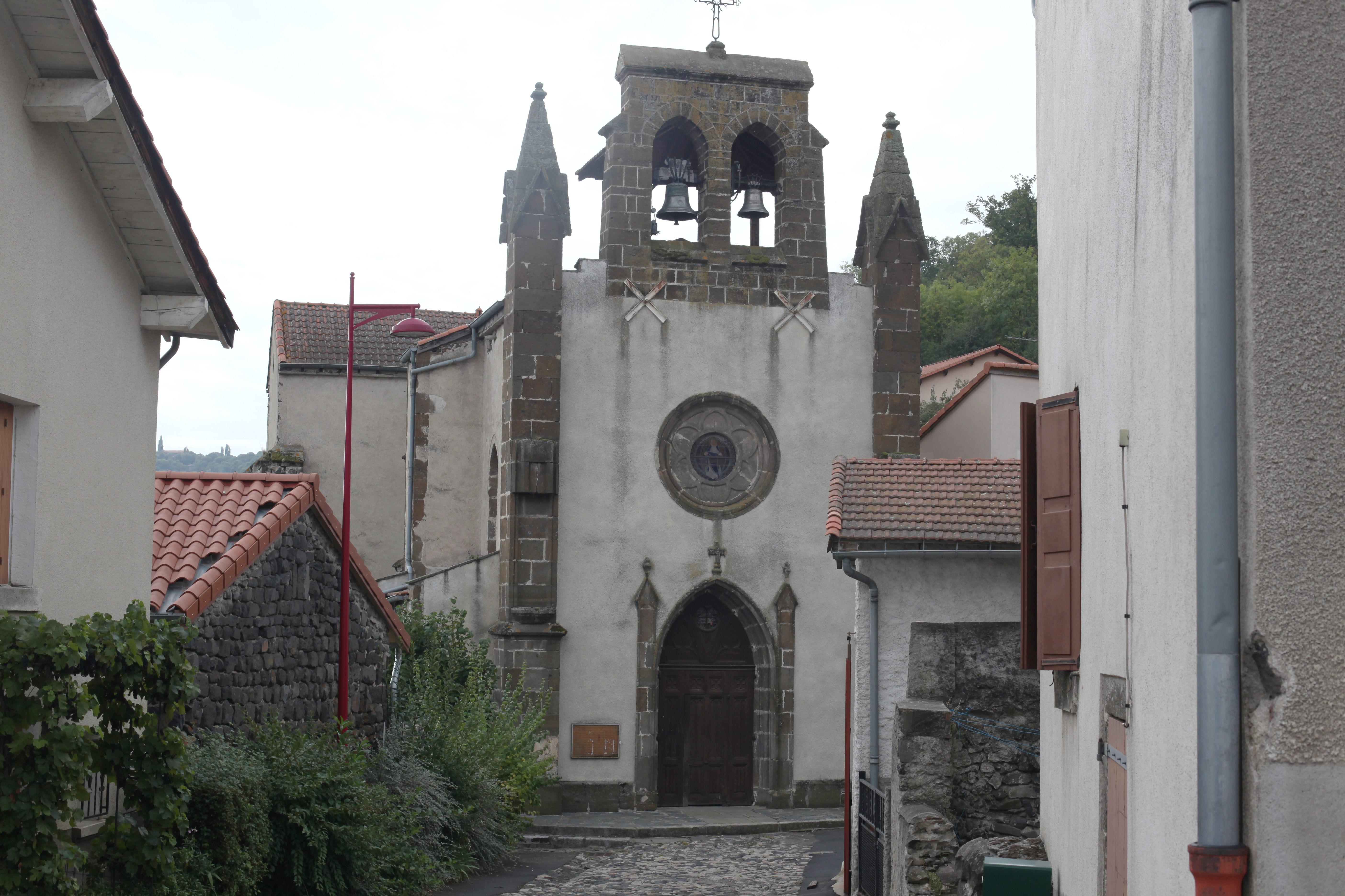 Cussac-sur-Loire